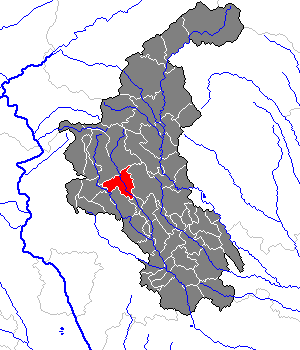 This map shows the area of the Gemeinde (municipality) Naas in the Bezirk (district) Weiz, Styria, Austria.